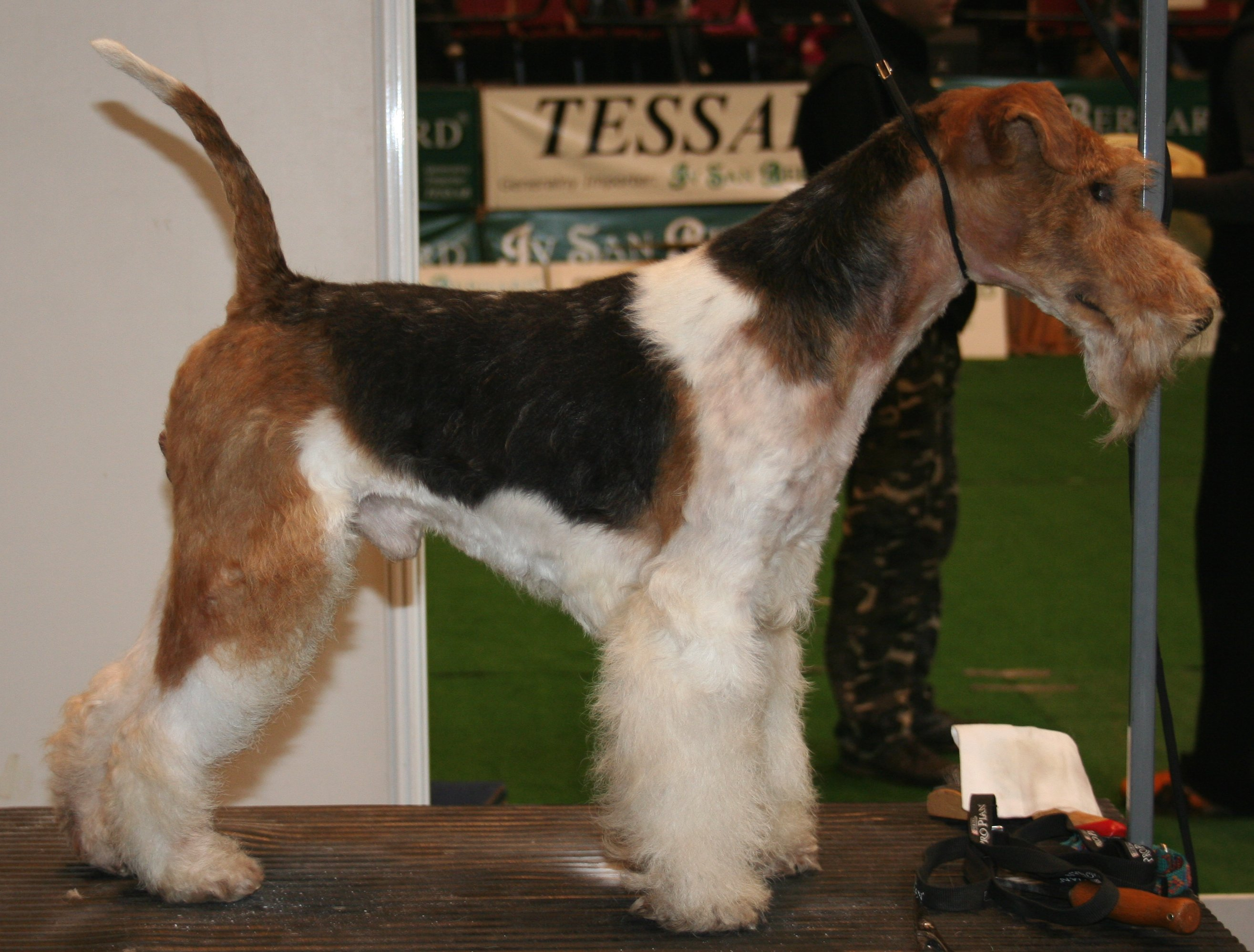 Fox Terrier (wire) during dogs show in Katowice, Poland